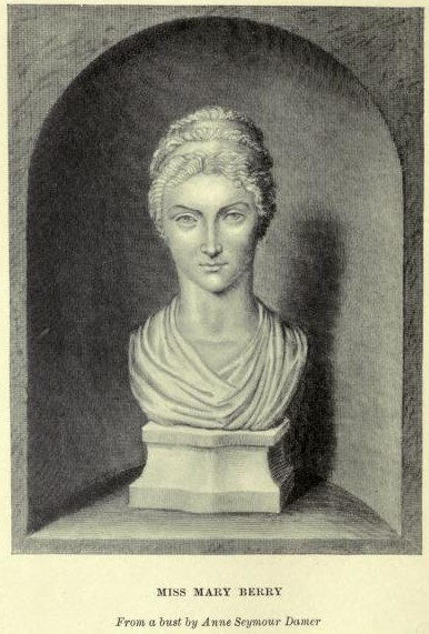 Bust of novelist Mary Berry by Anne Seymour Damer